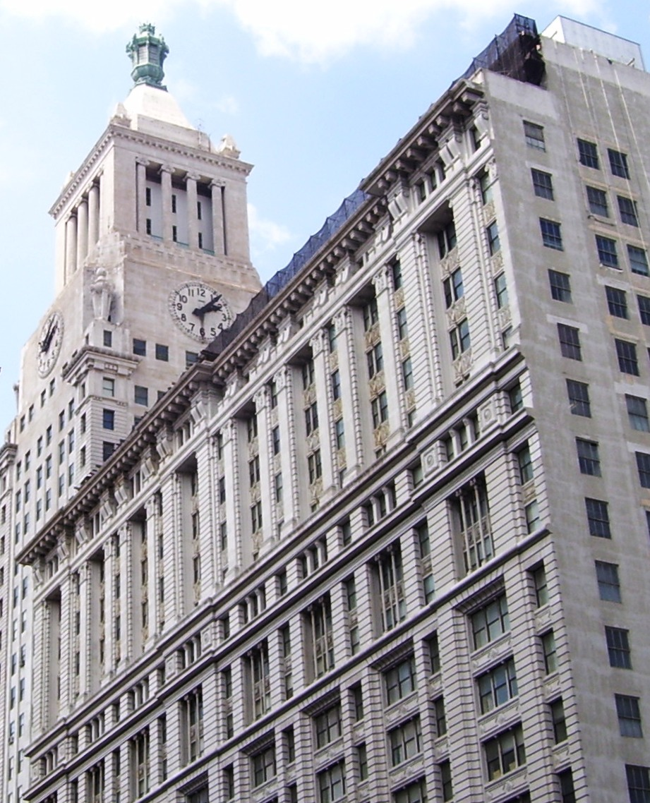 The tower and main building of the Consolidated Edison Company Building (originally the Consolidated Gas Company Building) at 4 Irving Place at East 14th Street in Manhattan, New York City, as seen from Third Avenue below 14th Street. The building was erected in 1915 (architect: Henry J. Hardenbergh) on the site of the Academy of Music, New York's third opera house. (The name then went to a movie house across the street, which later became The Palladium, and then was torn down for a New York University dormitory.) The tower, with its landmark clock, was added in 1926 (architect: Warren & Wetmore). It is topped by the "Tower of Light".